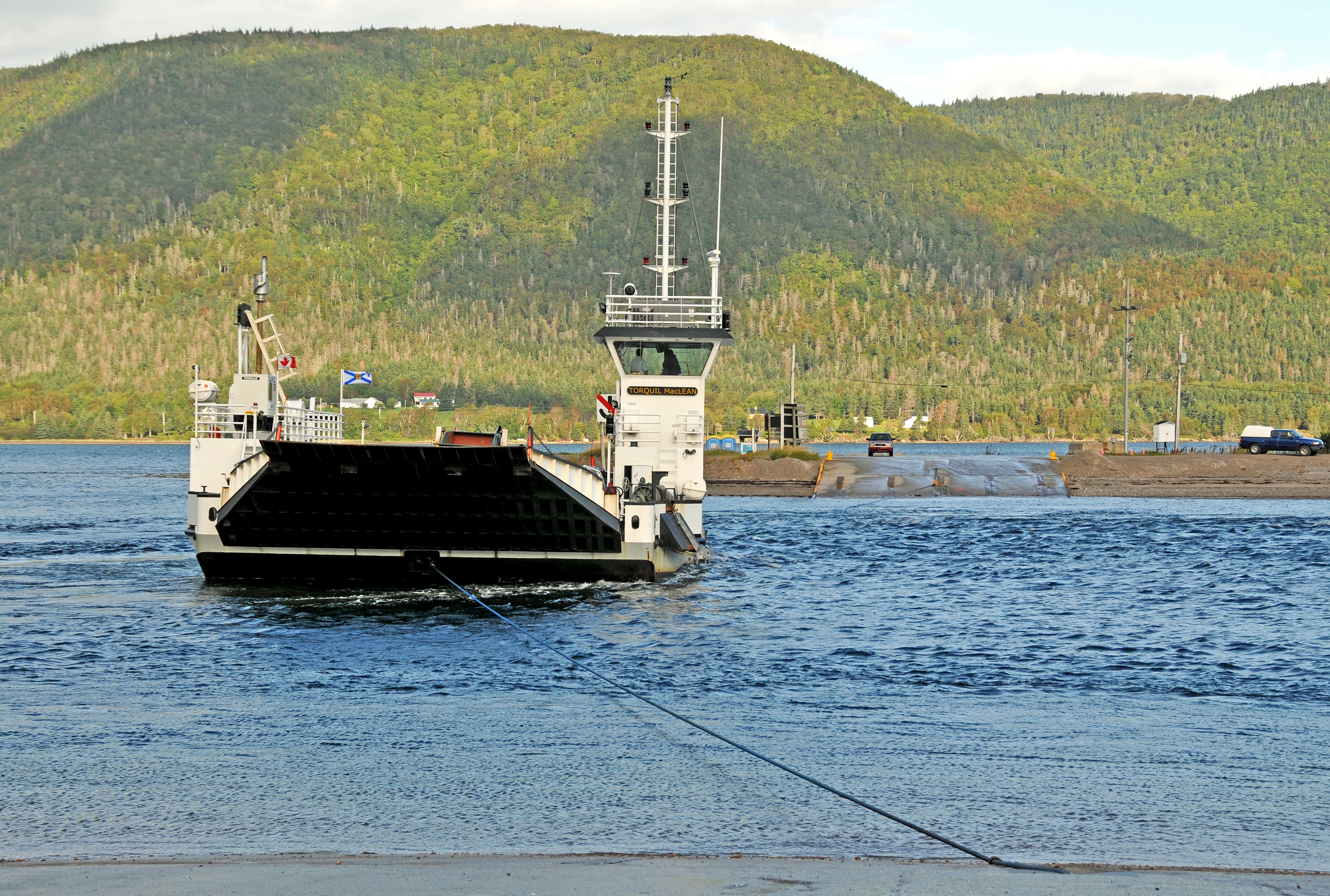 This ferry runs across a 210 meter (700ft) wide entrance to St. Ann's Harbour between Englishtown and Jersey Cove. This Englishtown ferry arrived in Englishtown on July 3, 2008. It is a larger auto ferry than the previous one and has been christened "The Torquil MacLean" in honour of the area's first ferry operator. Designed and built in Nova Scotia, the $4-million ferry can carry 15 full-size cars per trip (compared to 12 cars per trip on the previous ferry).